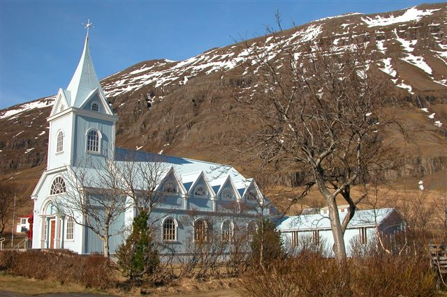 Church of Seyðisfjörður